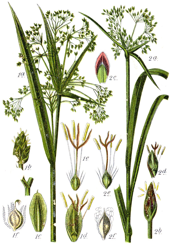 1. Scirpus radicans Schkuhr, syn. Cyperus radicans (Schkuhr) Missbach & E.H.L.Krause 2. Scirpus sylvaticus L. Original Caption 1. Wald-Simse, Cyperus silvaticus 2. Wurzel-Simse, C. radicans